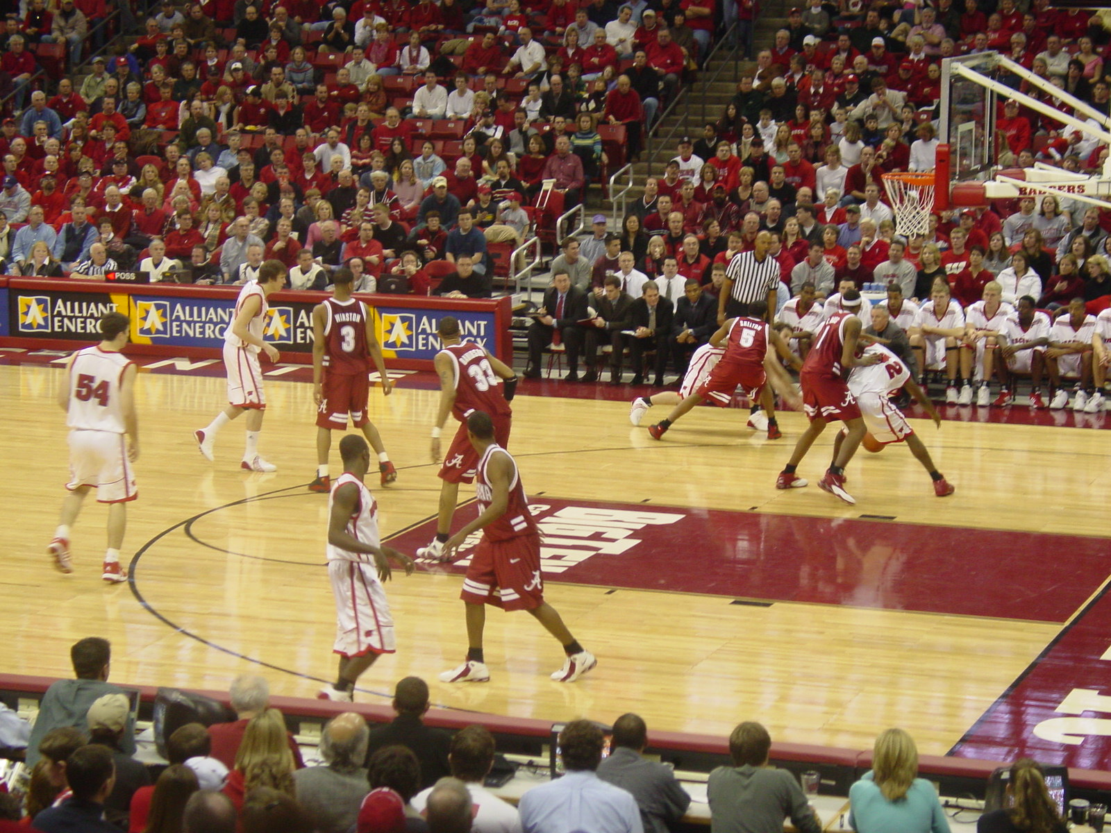 The pass going into the post to Alando Tucker.